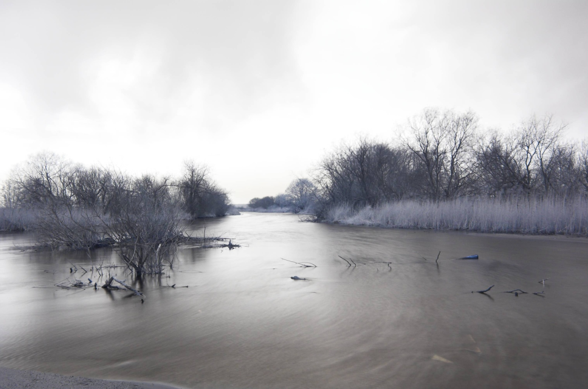 Picture taken in Reda, Poland, 2006 Made in Infrared. (IR)